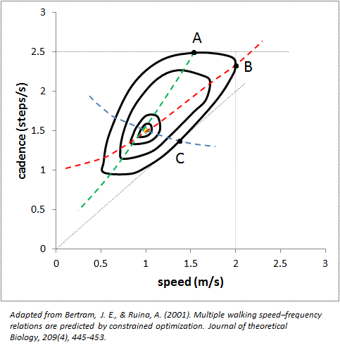 Energetic Cost Contour Plot. Coutour lines represent combinations walking speed and step frequency that require the same cost of transport. The green line represents optimization with constrained step frequency (the minimal cost of transport for fixed step frequencies). The red line represents optimization with constrained walking speed. The blue line represents optimization with constrained step lengths.